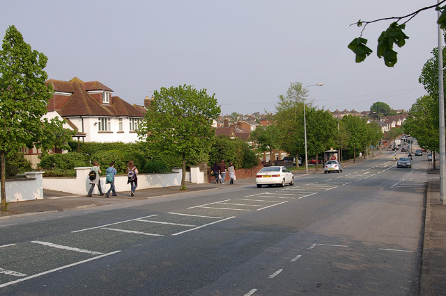 Pontypridd Road, Barry The B4266, one of the many wide roads laid out by Barry's farsighted planners.